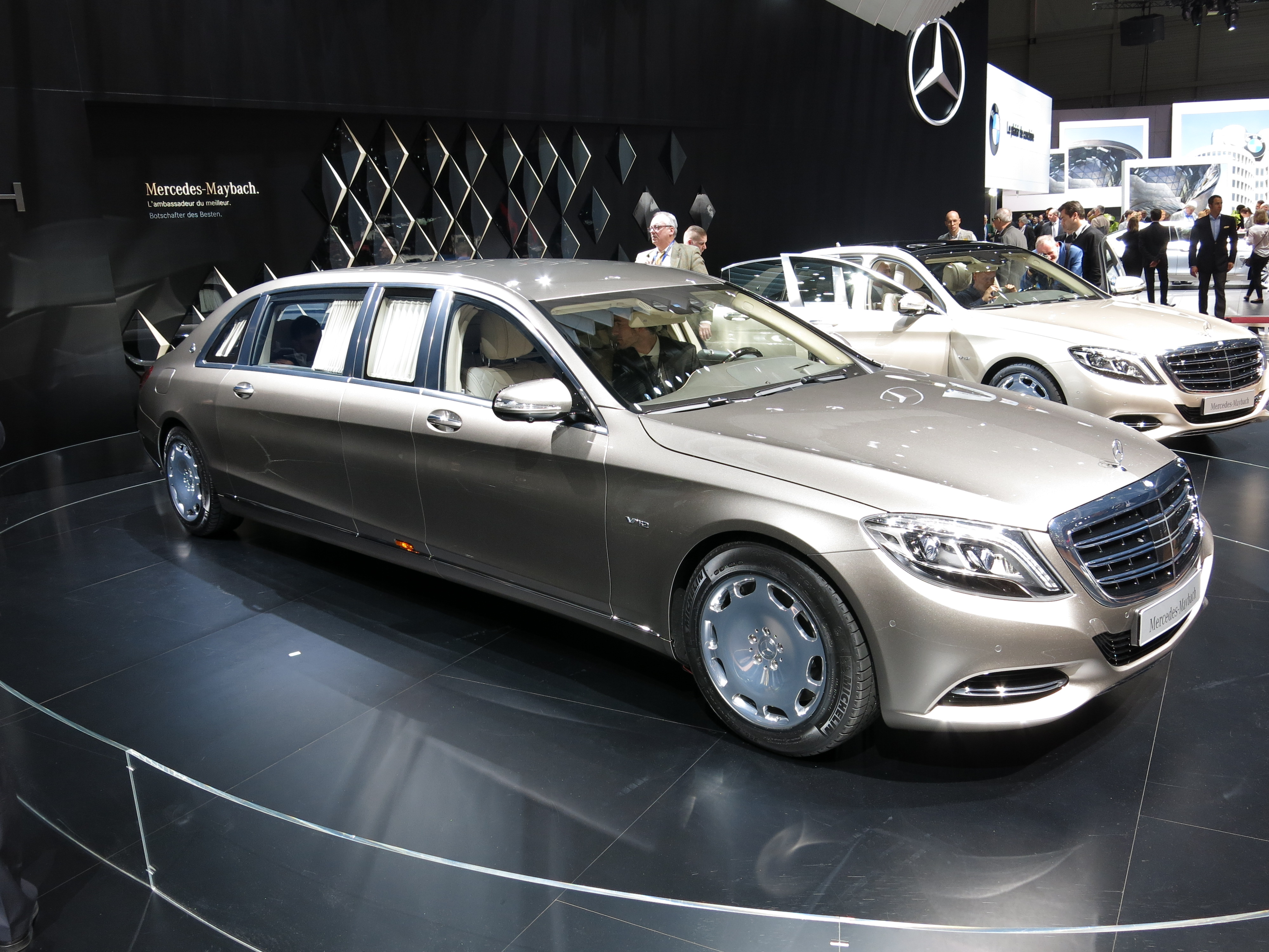 Geneva Motor Show 2015 (photo taken on the first press day)